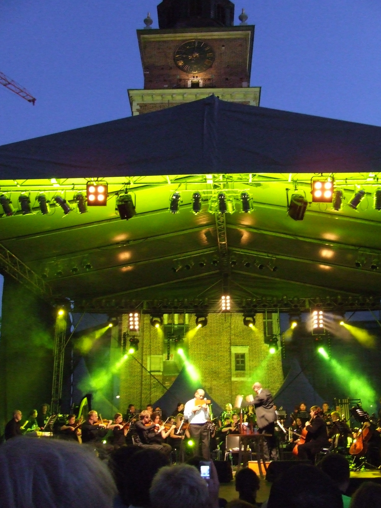 Gheorghe Zamfir, 10-th Crossroad Festival, Main Squere in Cracow, 2008